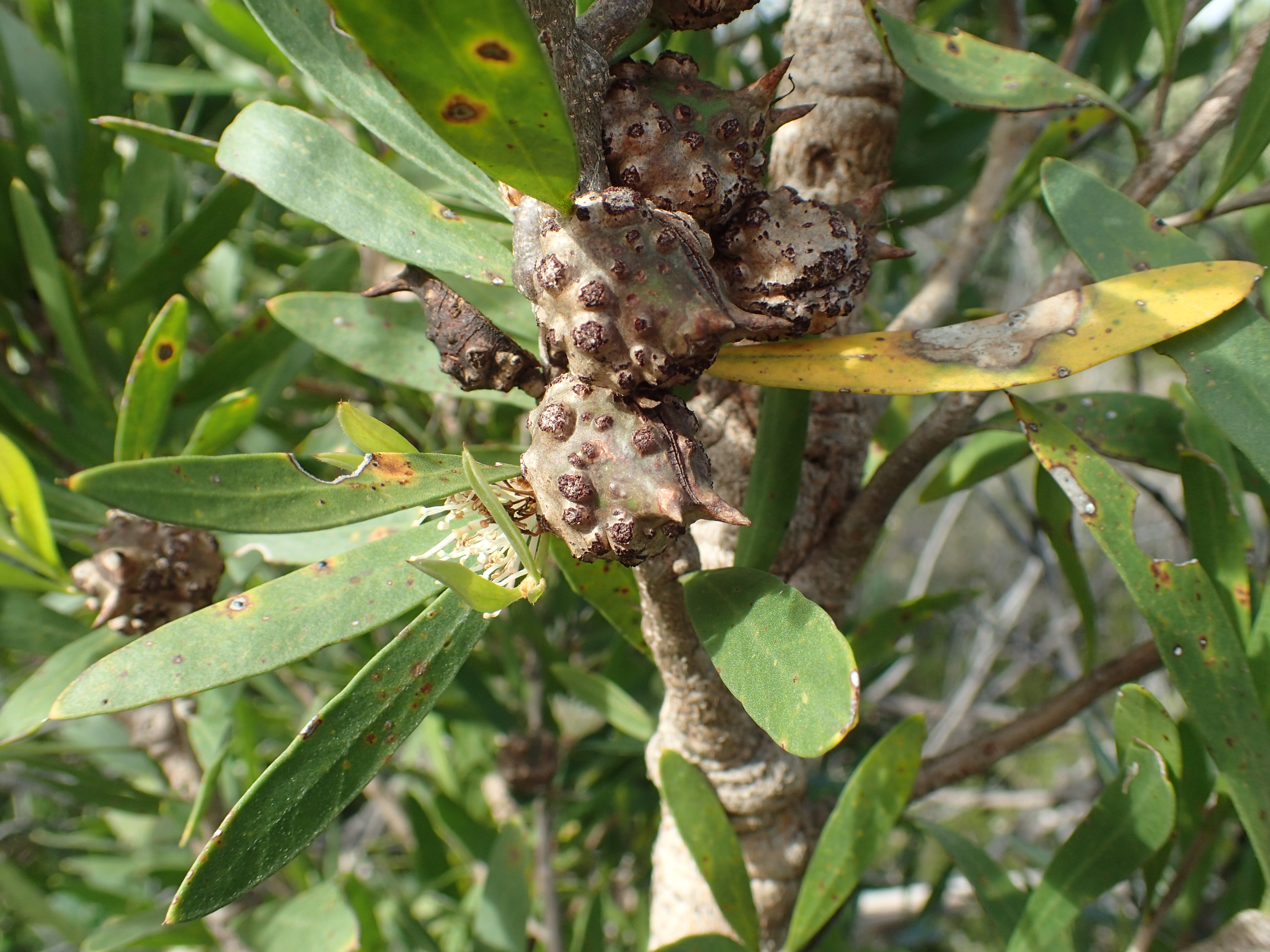 Foliage and fruit of Hakea oleifolia